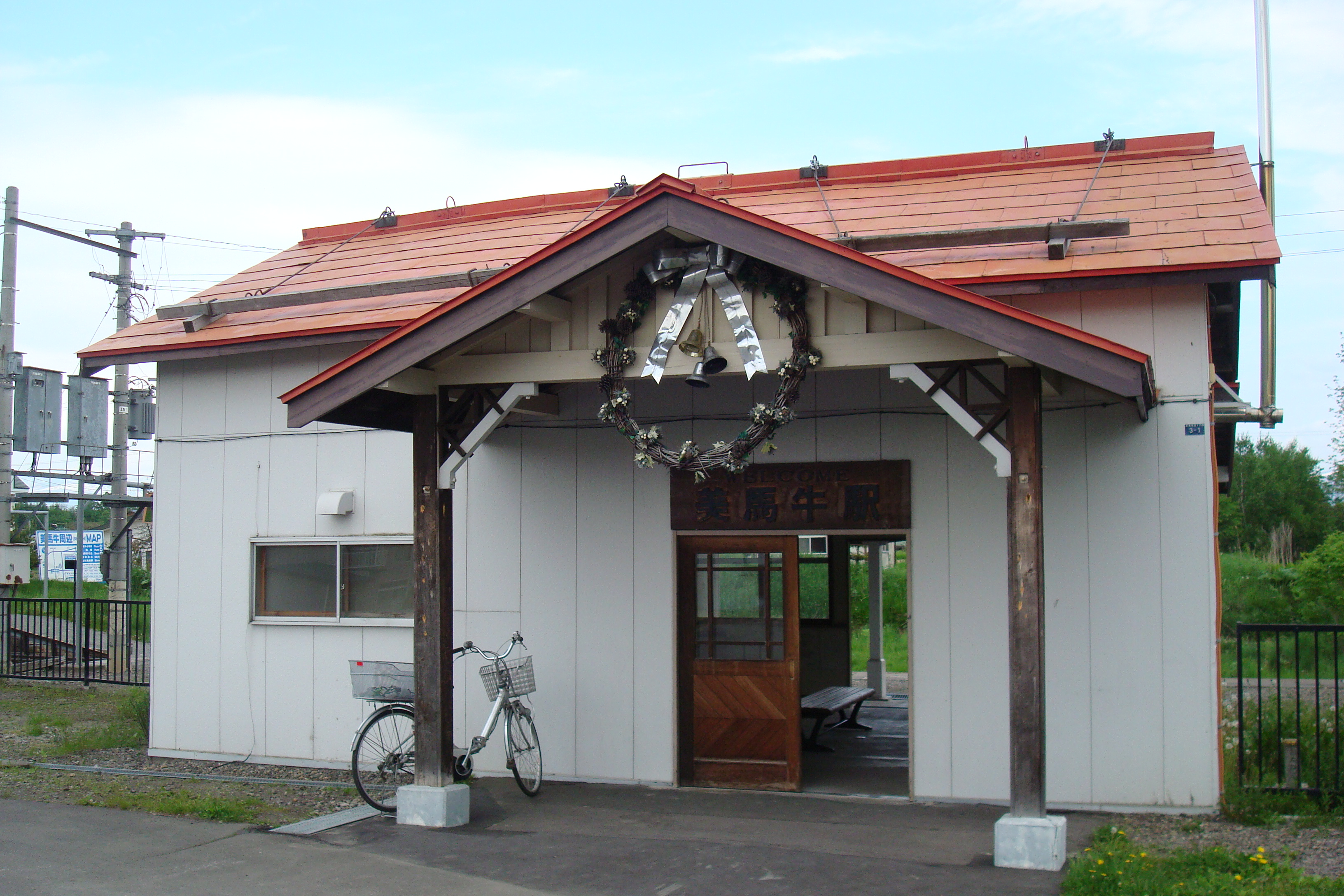 Bibaushi Station in Biei, Hokkaido, Japan.